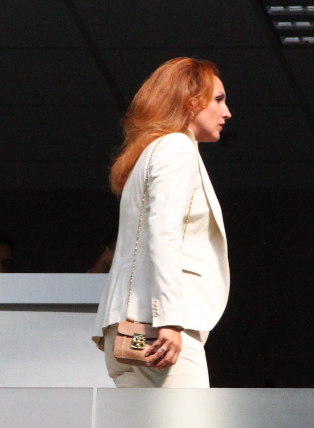 Maria Petrova (Bulgarian: Мария Петрова) (born November 13, 1975 in Plovdiv, Bulgaria) is a Bulgarian rhythmic gymnast. She shares the world record for the most individual world all-around rhythmic gymnastics titles of all time and has never placed lower than seventh in any competition in her entire career